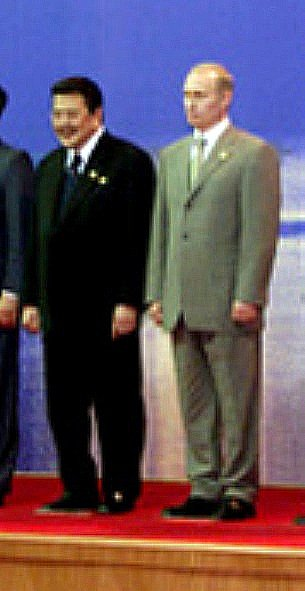 (Cropped from this photo BRUNEI, Bandar Seri Begawan. Most countries - members of the Asia-Pacific Economic Cooperation (APEC).